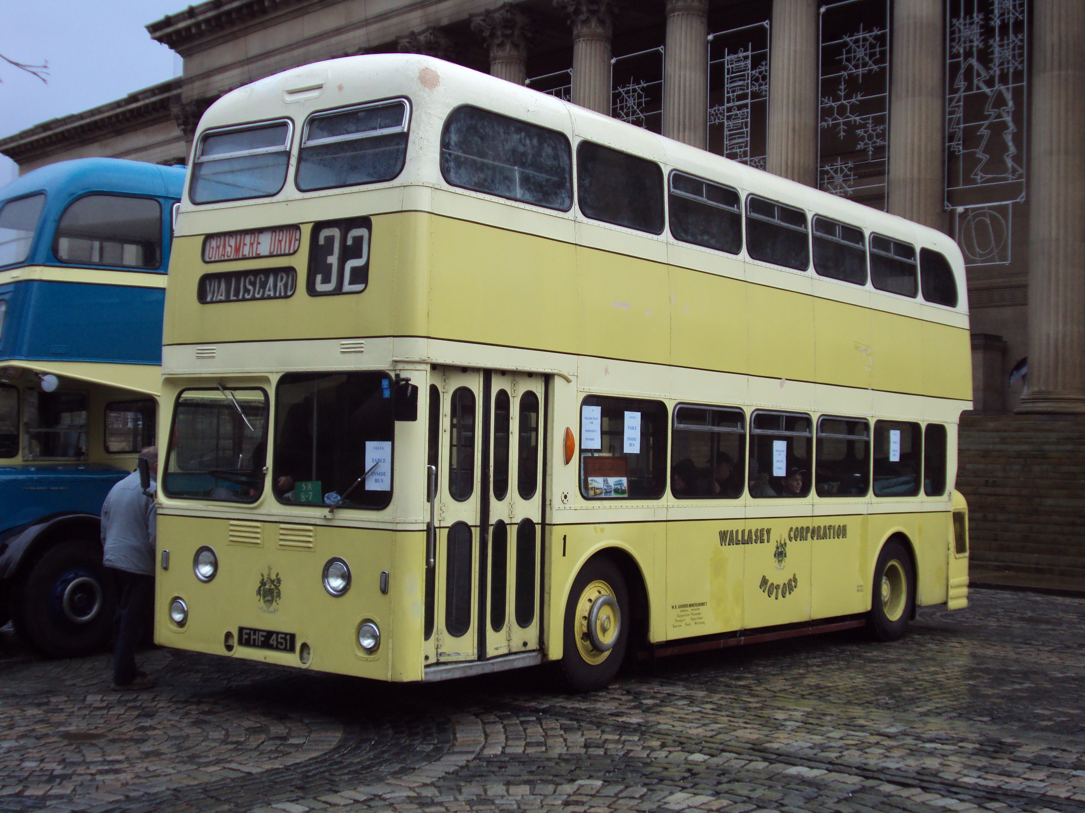 Photo taken at the Merseyside Passenger Transport Executive 40th anniversary event at St Georges Plateau, Liverpool.